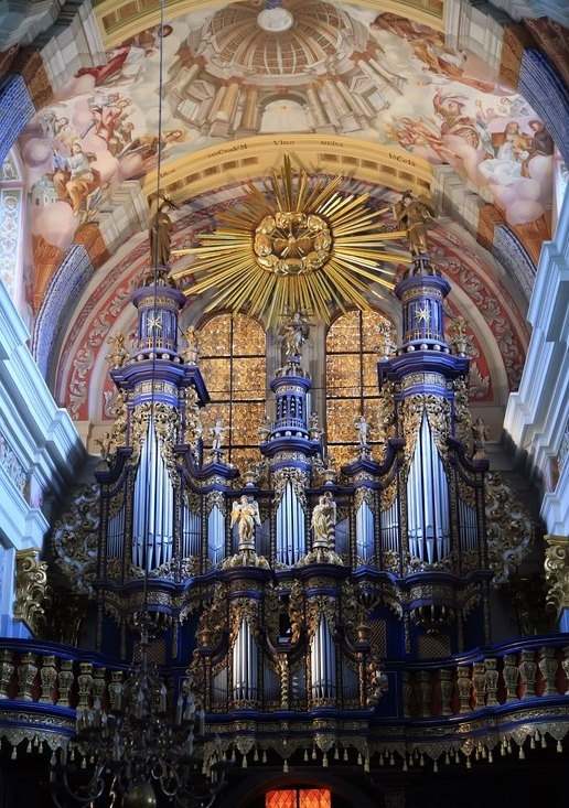 Święta Lipka, (Poland, Warminian-Masurian Voivodship), view of sancturay of St. Mary